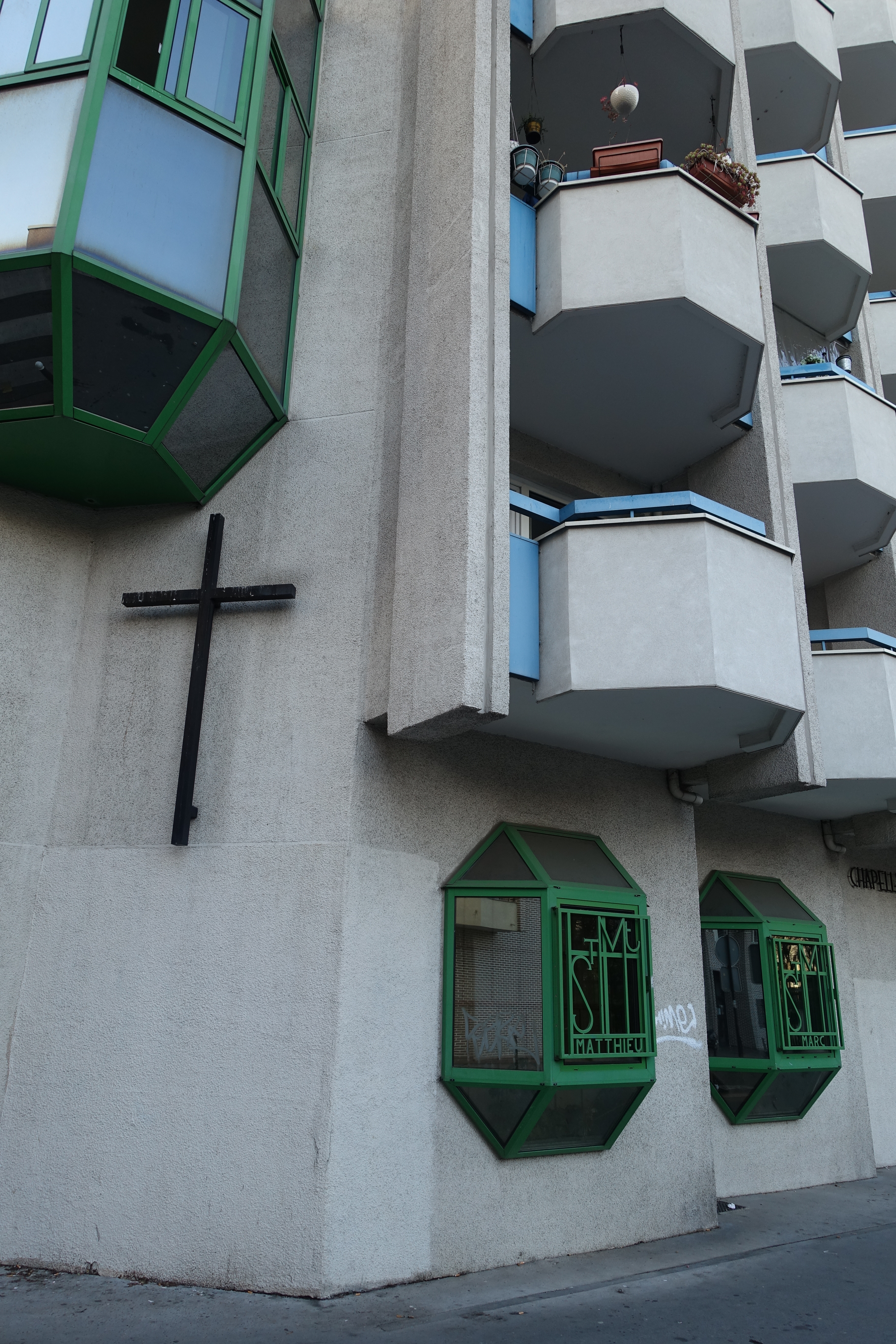 Paroisse orthodoxe bulgare Saint-Euthyme-de-Tarnovo @ Paris 18